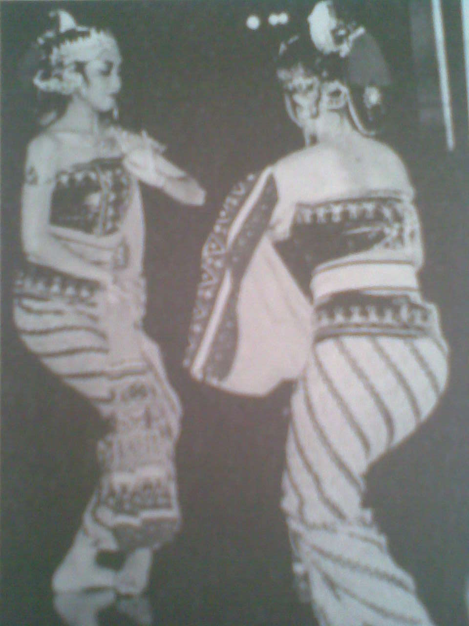 Gambyong Pareanom